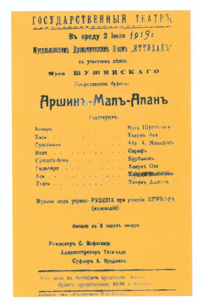 Poster: Arshin mal alan by Uzeir Hajibeyov, Tiflis, 1919